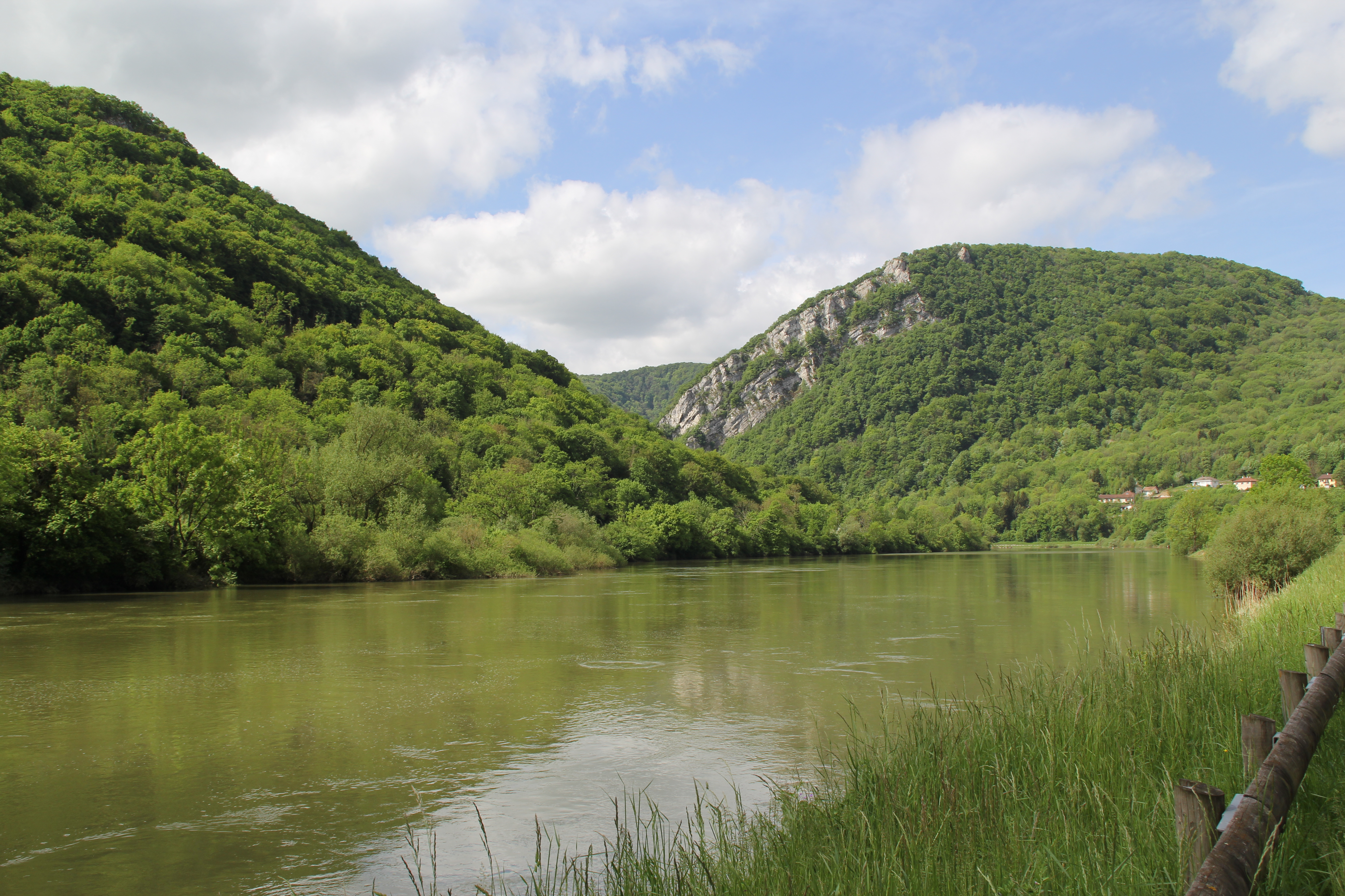 The river Doubs near Ougney-Douvot